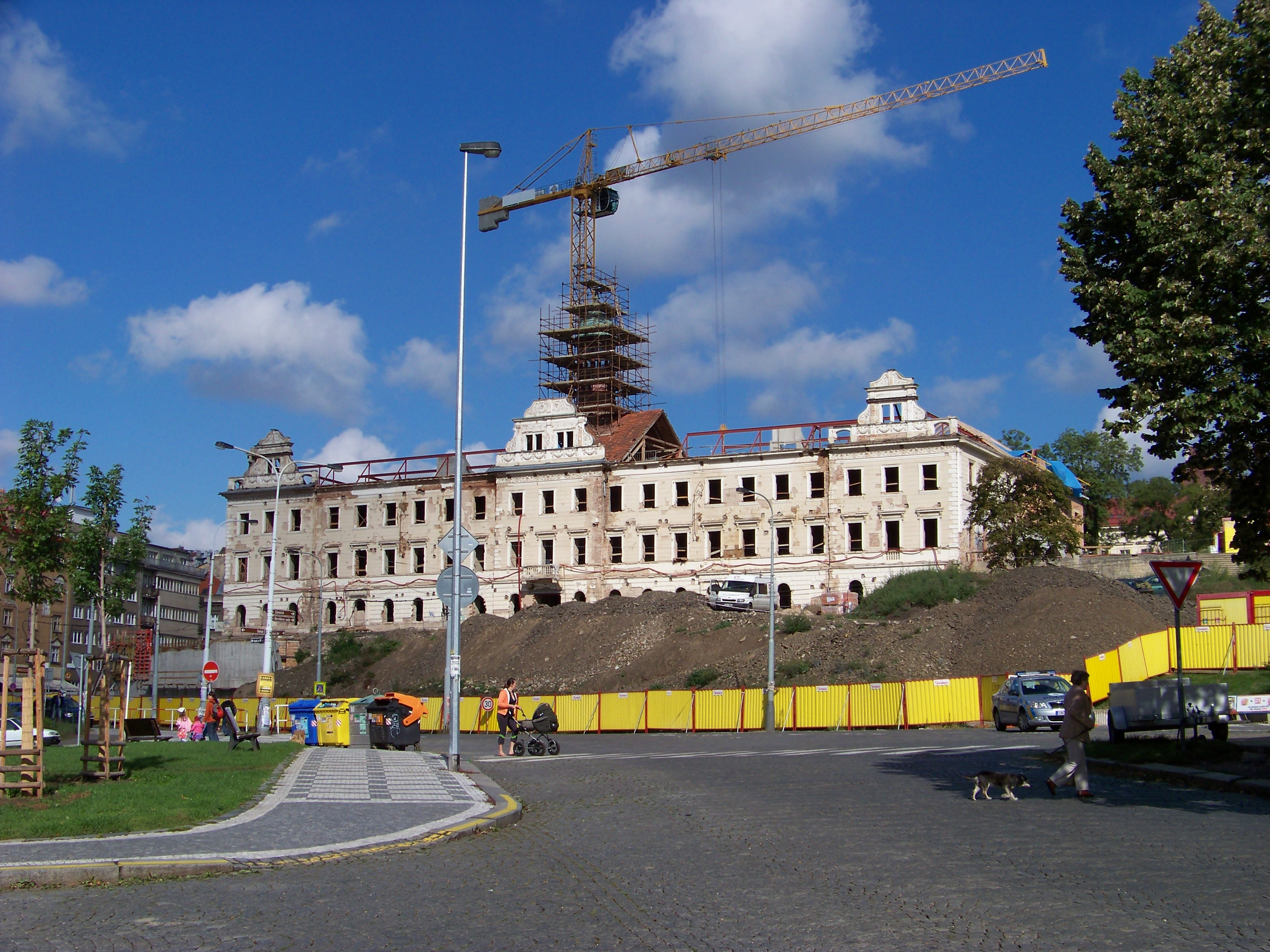 Prague-Vršovice, the Czech Republic. Vršovice Castle.